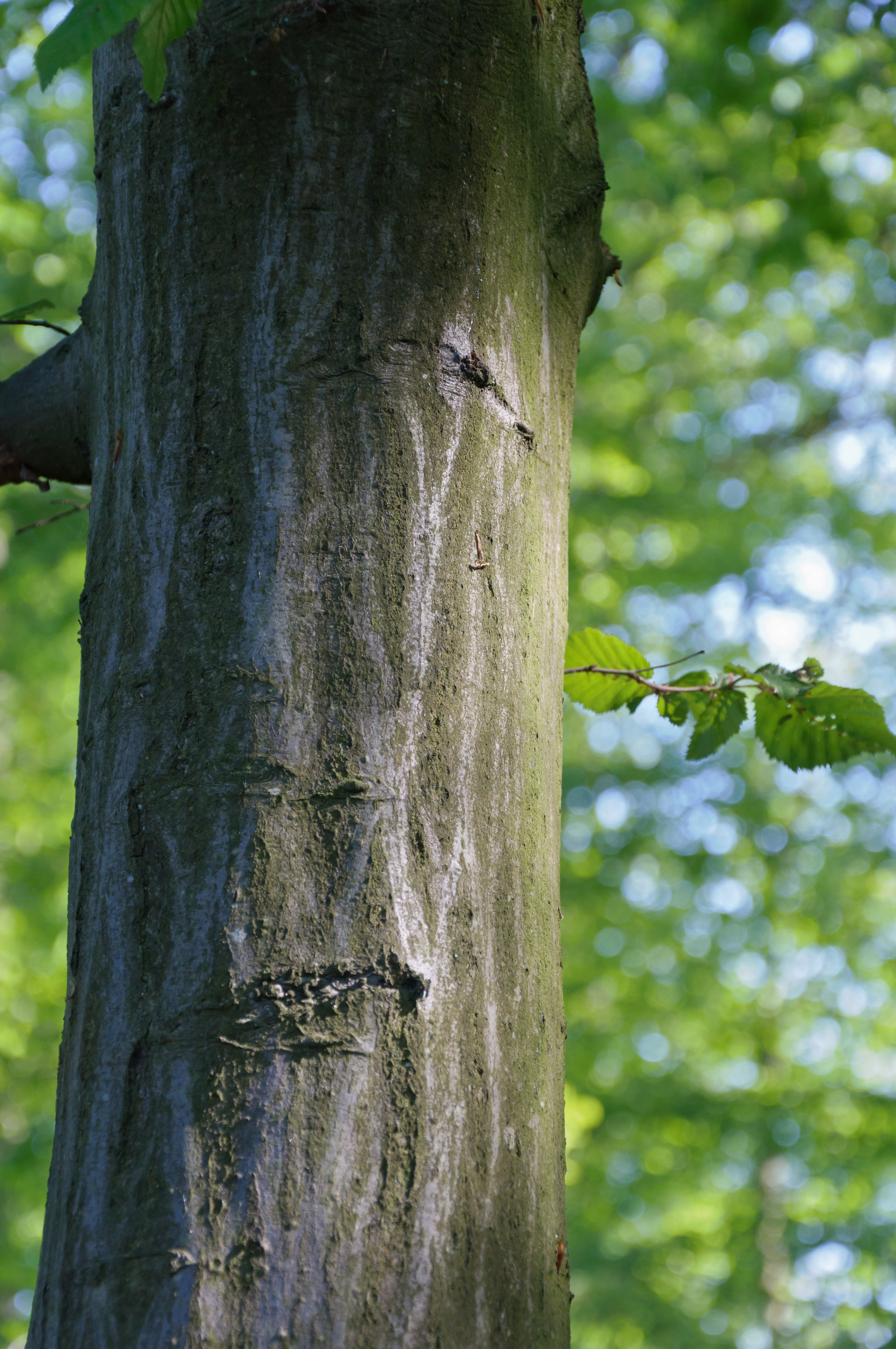 Trunk of an European hornbeam (Carpinus betulus) trunk in the Bois de la Garenne, Plessis-Robinson, Hauts-de-Seine, France.